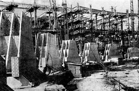 Palace of Soviets, 1940, foundation and frame